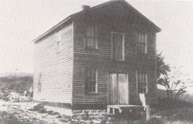 Burr Caswell frame house built in 1849 - Ludington, MI